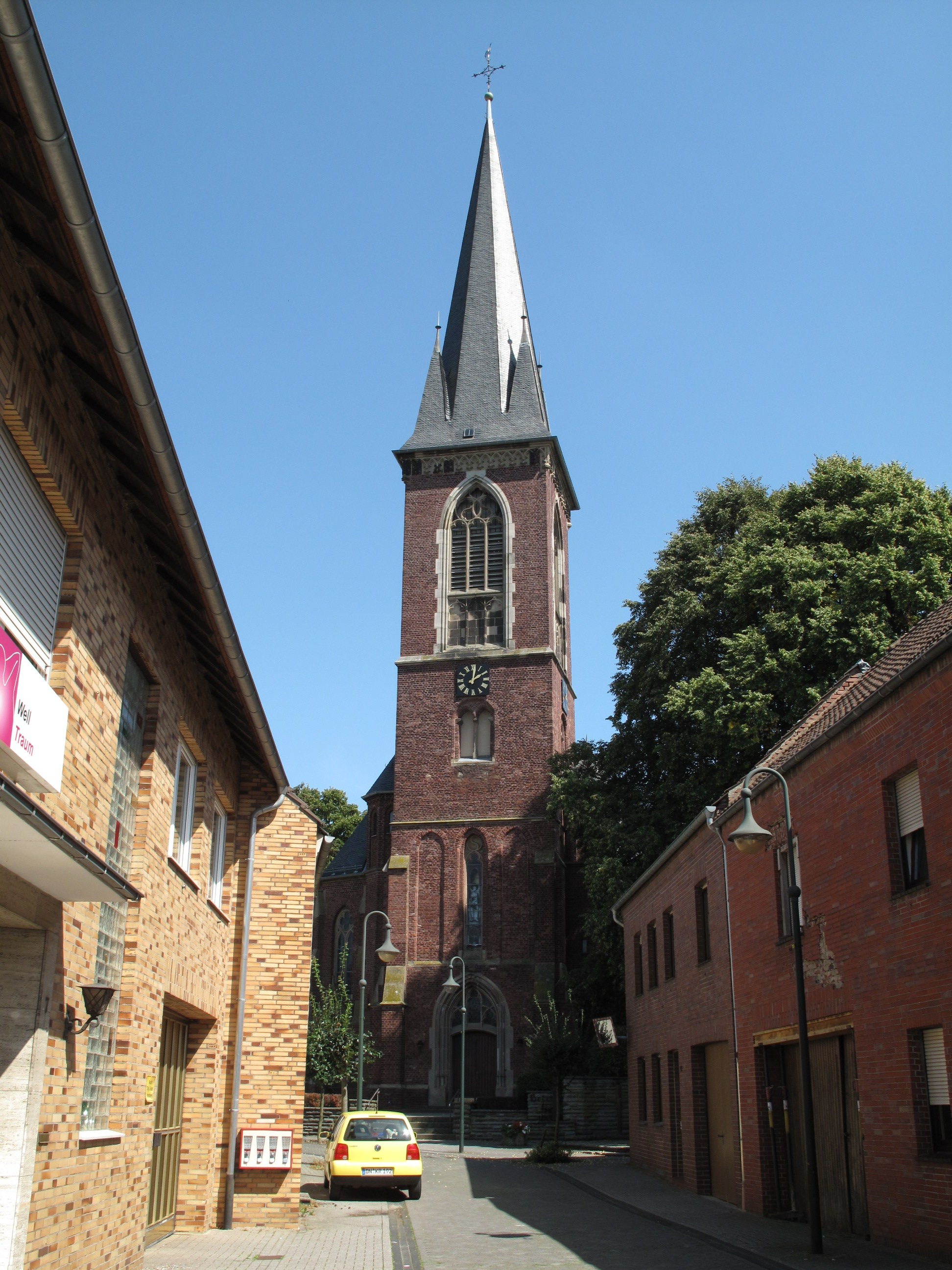 Titz, church